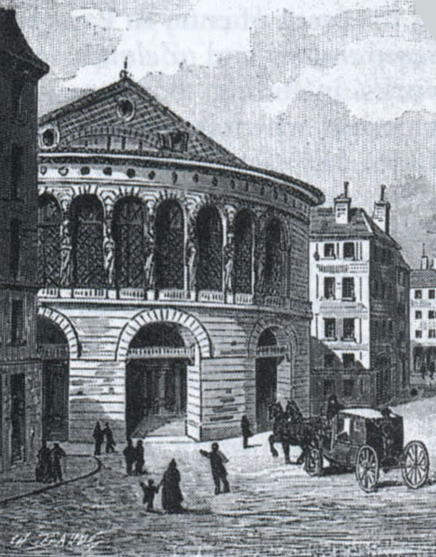 Salle Feydeau, Paris (detail)